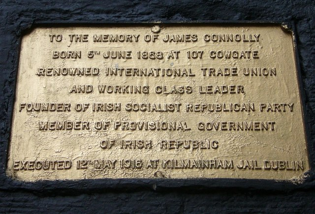 James Connolly plaque 1349800